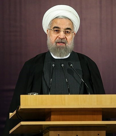 Hassan Rouhani, speaking in Election commission after registering for 2016 Assembly of Experts election